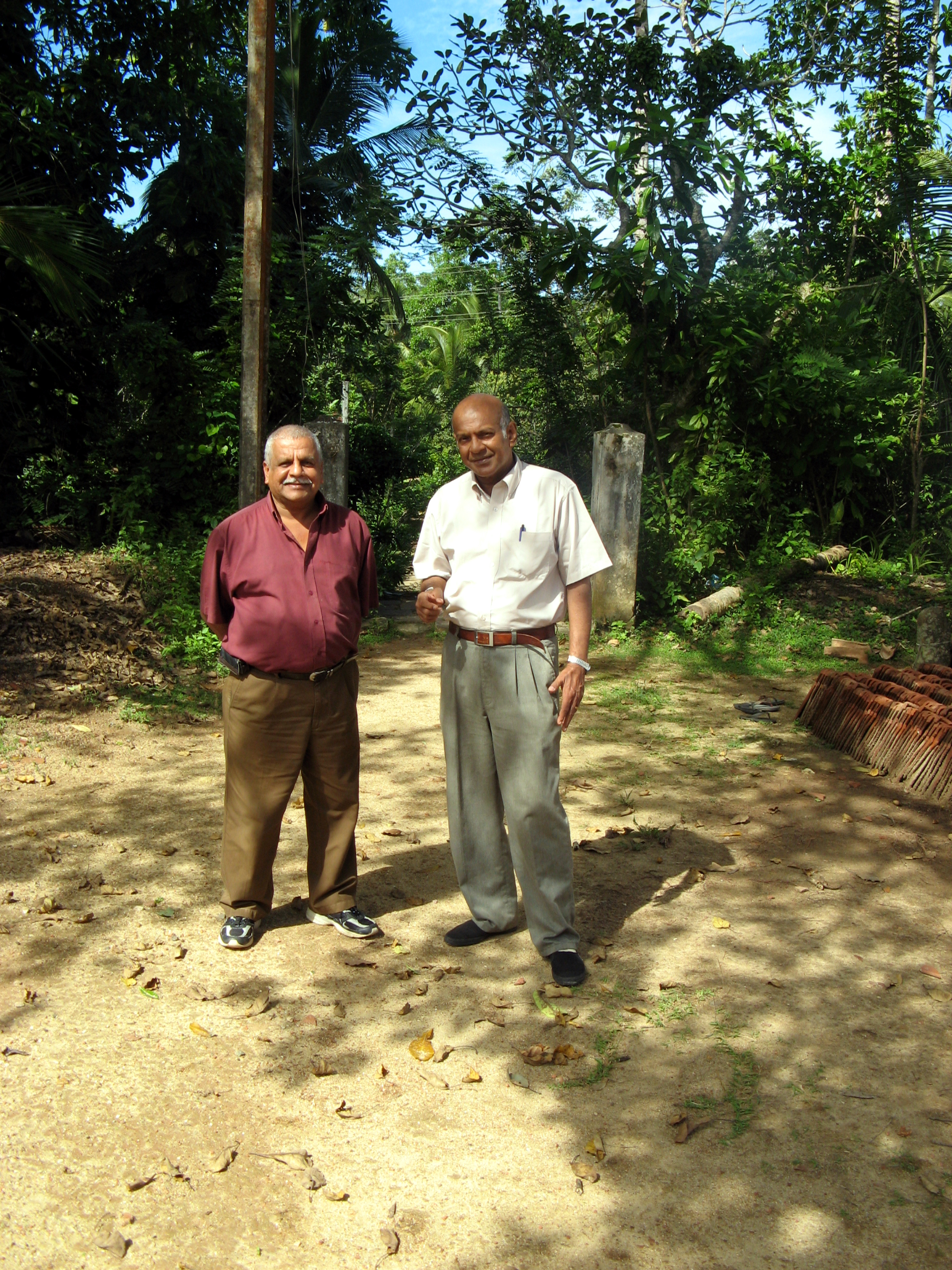 Sudharshan Seneviratne & Walter Prof. Seneviratne and Walter, our National Guide, pause in front of the entrance to Kataluva Purvarama Temple, near Galle, on the south coast of Sri Lanka.